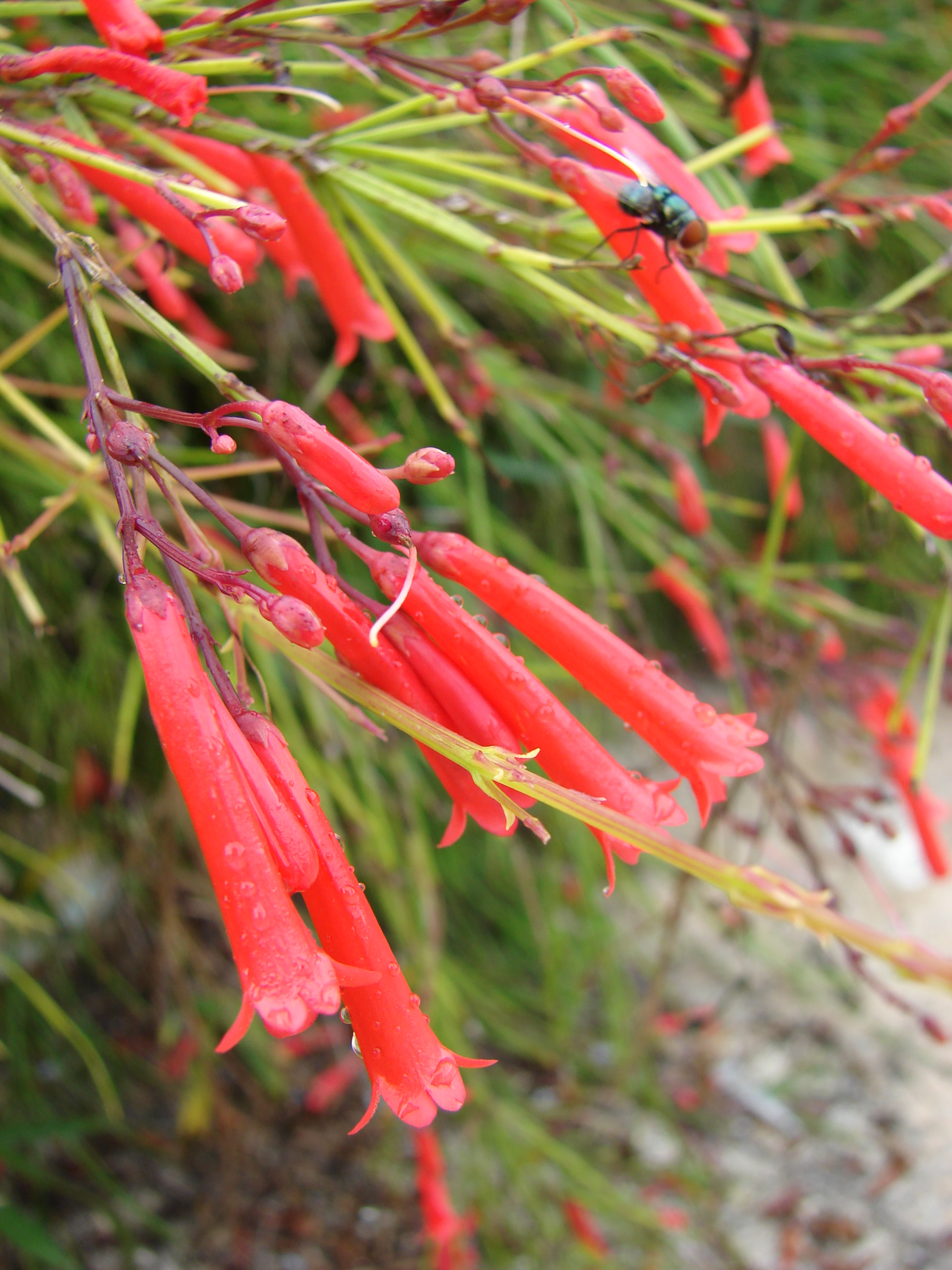 Russelia equisetiformis (flowers). Location: Midway Atoll, 4212 Commodore Ave Sand Island